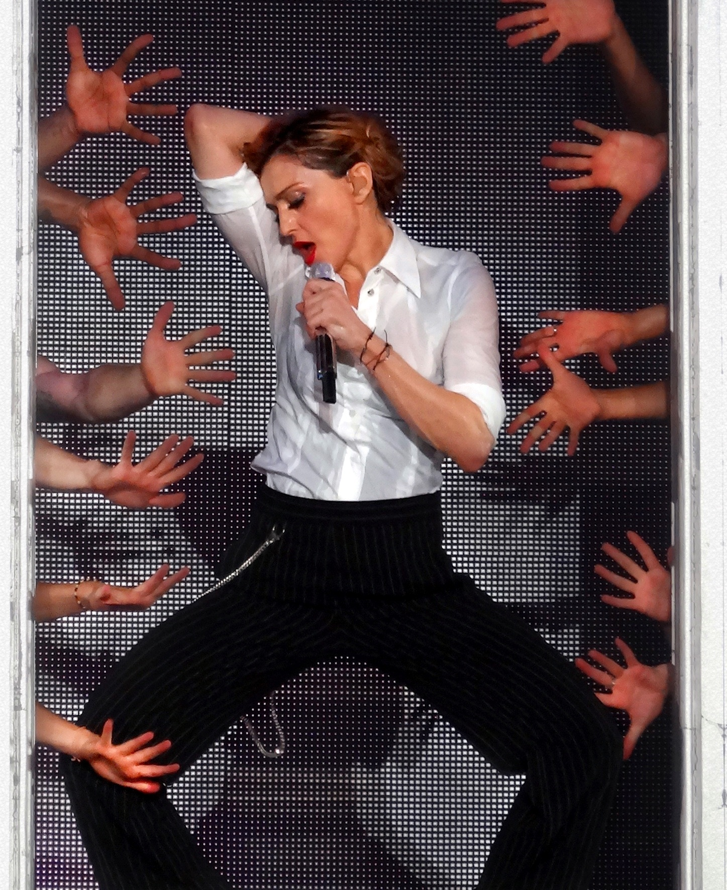 Madonna performing "Human Nature" on the MDNA Tour